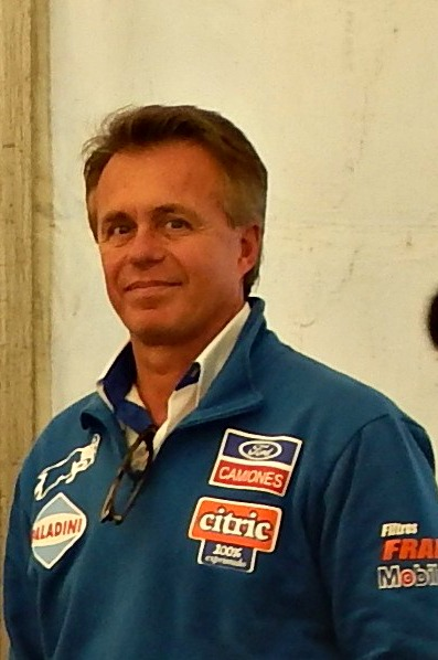 Víctor Rosso. This photograph was taken at the Oscar and Juan Gálvez racetrack in Buenos Aires when the 200 kilometers of the Super TC2000 (6th day of the 2014 championship) was played.